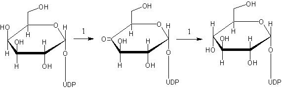 biosynthesis of galactose